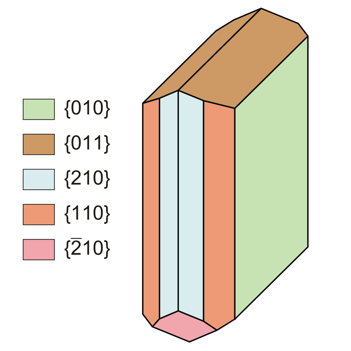 Drawing of a keyite crystal; reference: P. Embrey et al. (1977), Mineralogical Record Vol. 8, issue 3, page 88